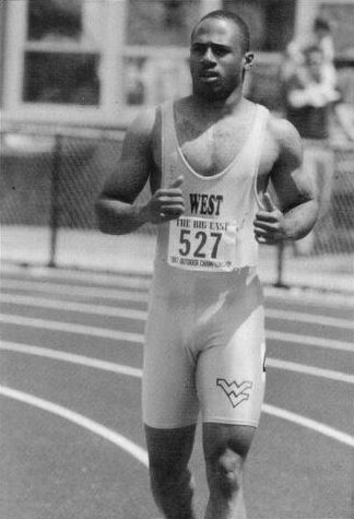 100 Meter Final ath the 1997 Big East Conference Championships in Villanova, PA